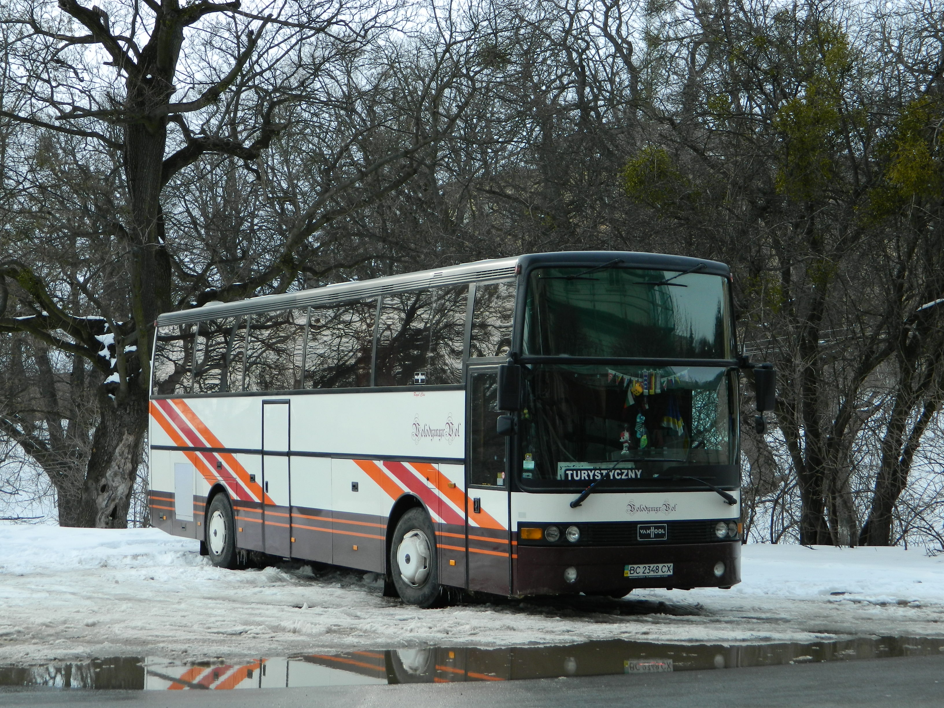 Van Hool T815 from Volodymyr-Volynskiy photographed in Lviv